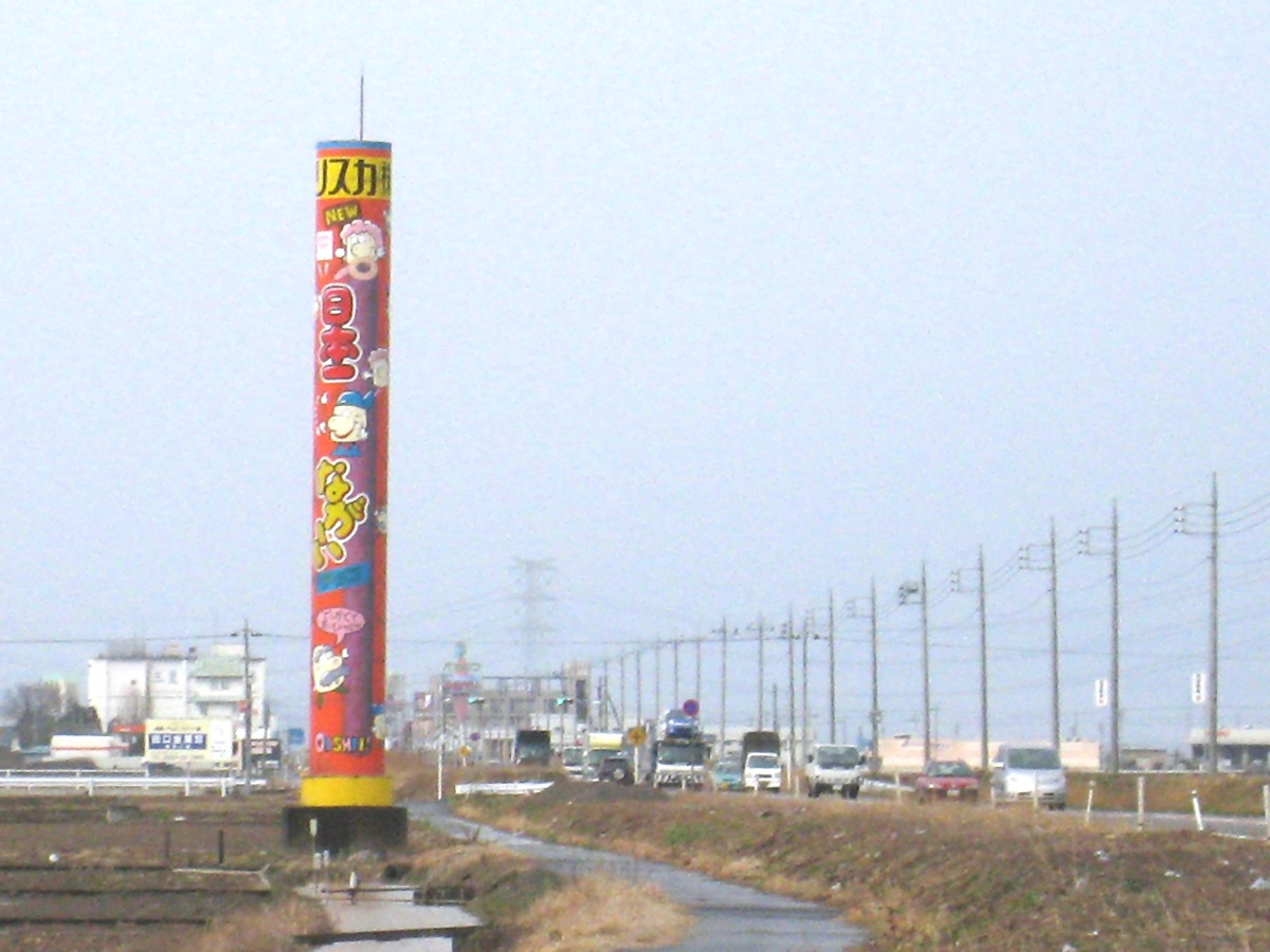 Exterior of "RISKA Co.,Ltd longest chocolate of Japan", is signboard of snack food in Joso City, Ibaraki Prefecture, this photo shoot on January 31, 2009.